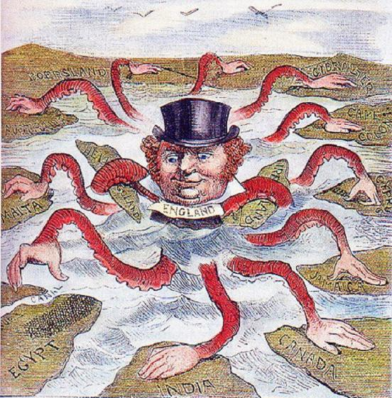 American cartoon of John Bull (England) as an Imperial Octopus with its arms (with hands) in - or contemplating being in - various regions.